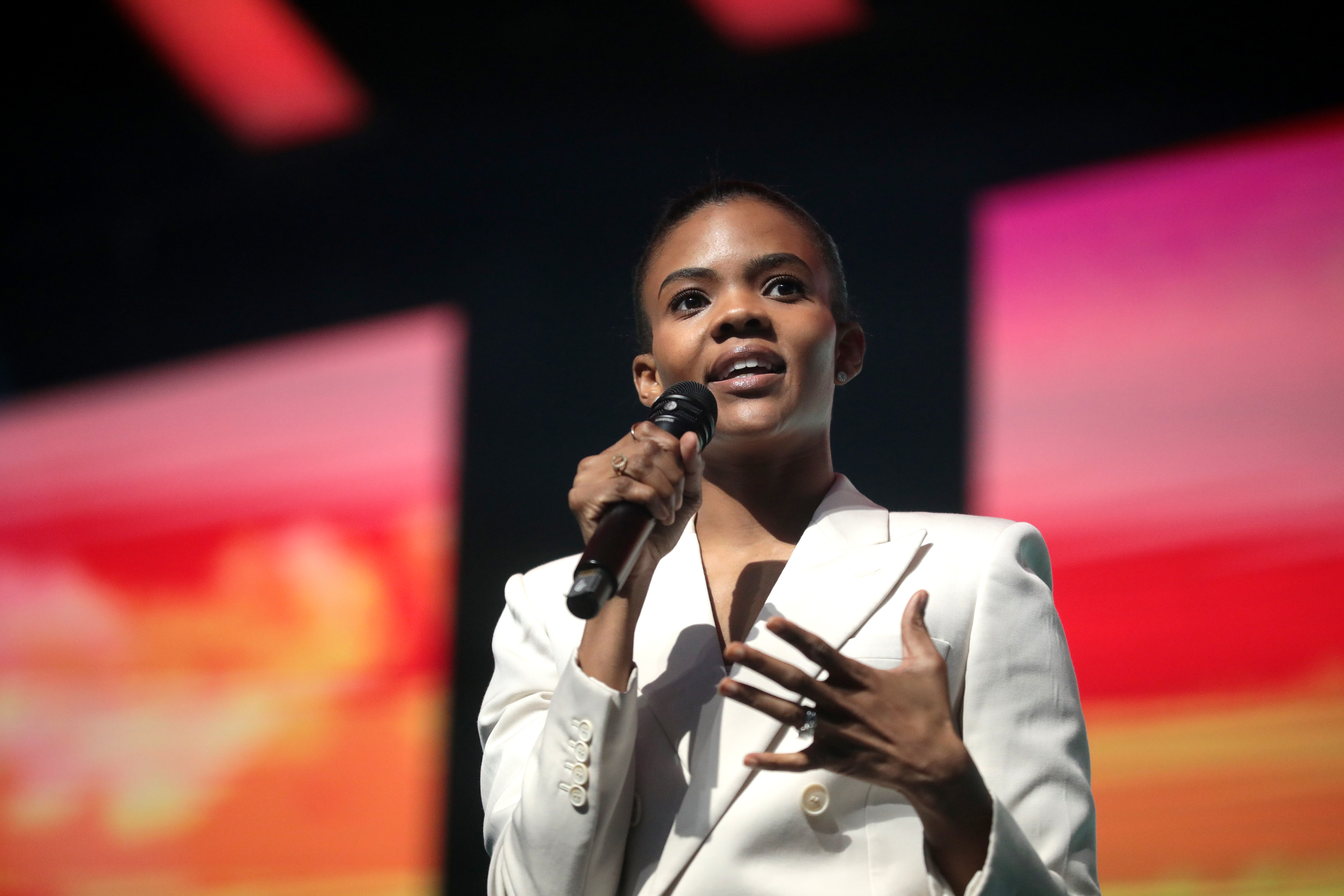 Candace Owens speaking with attendees at the 2019 Student Action Summit hosted by Turning Point USA at the Palm Beach County Convention Center in West Palm Beach, Florida.